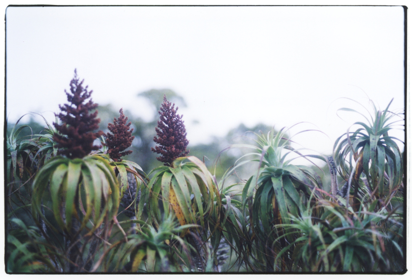 Dracophyllum traversii (Mountain Neinei), showing flower spikes. Mt Arthur, Kahurangi National Park, Aotearoa in New Zealand. Pentax K1000